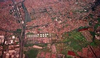 Tandjung priok Shoot this picture myself from a plane flying from Jakarta to Manado. Visible are the pertamina oil tanks.